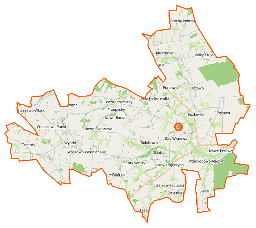 Map of Gmina Gzy, Poland This map of Gzy (gmina) was created from OpenStreetMap project data, collected by the community. This map may be incomplete, and may contain errors. Don't rely solely on it for navigation. Border coordinates52.812520.7734←↕→21.016252.6818